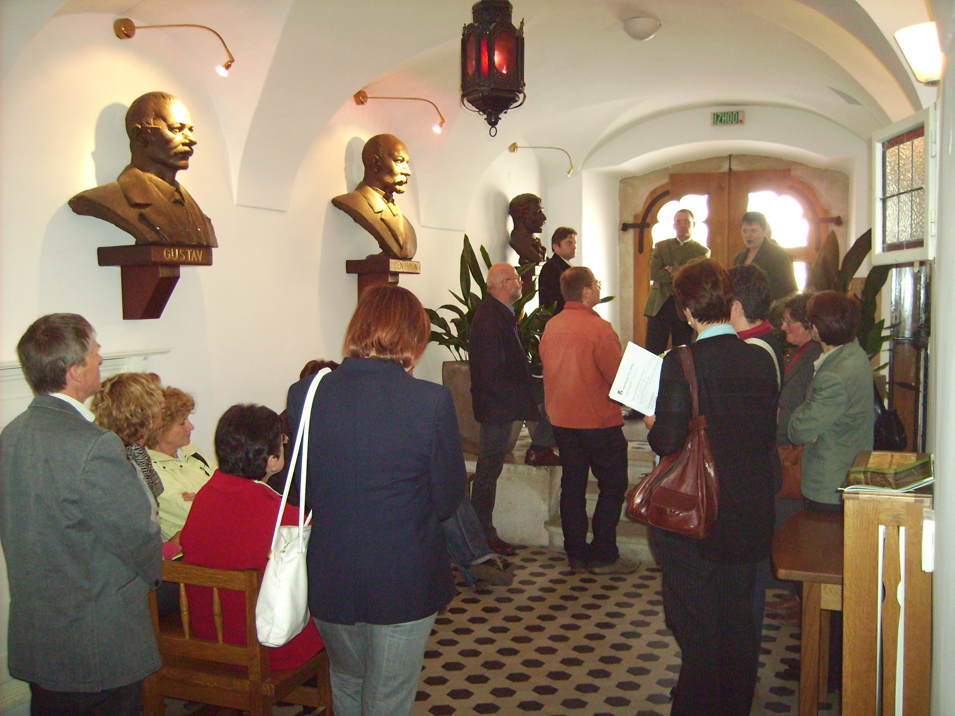 Inside the Ipavec house in Sentjur